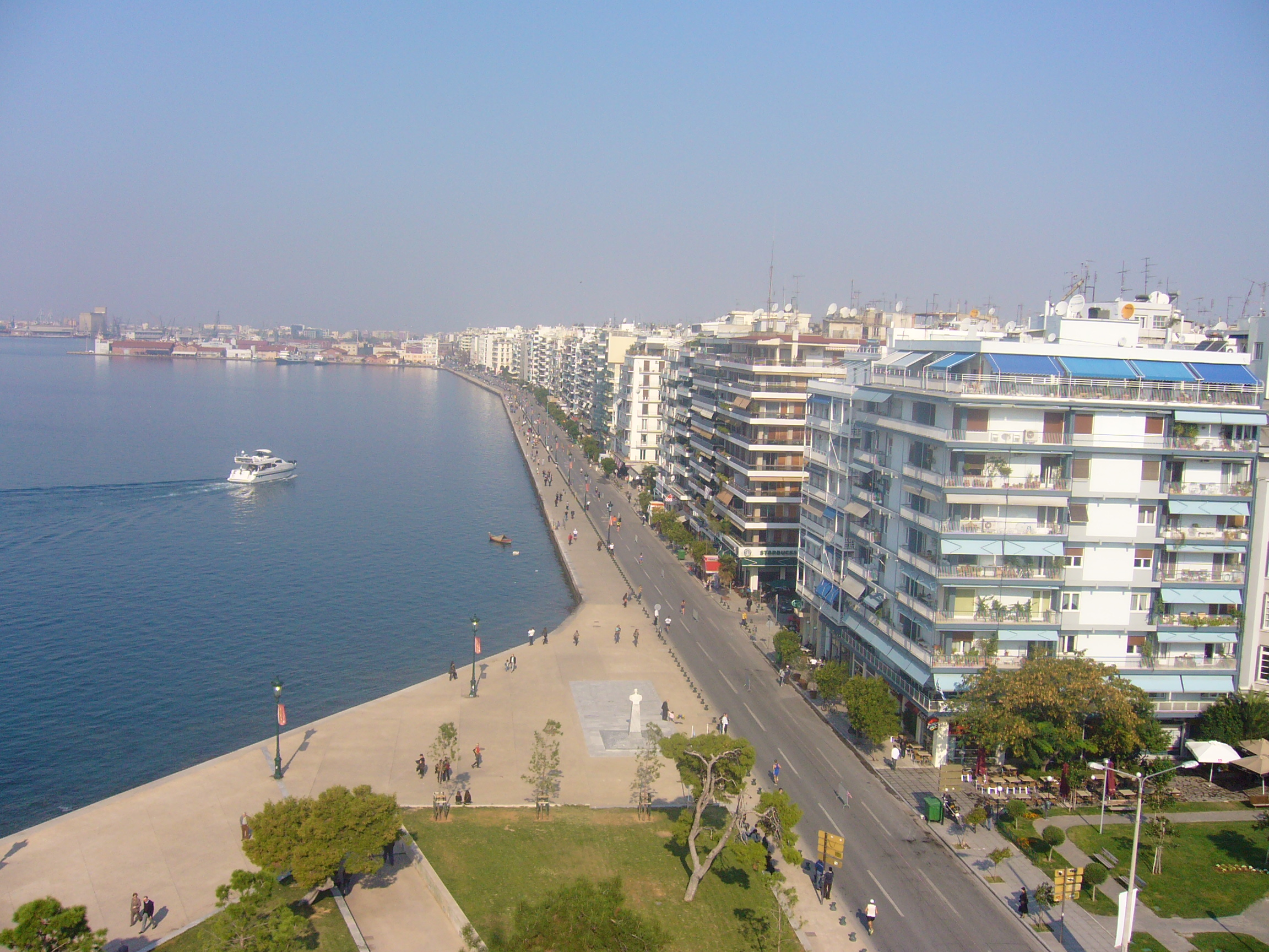 Thessaloniki, Macedonia, Greece